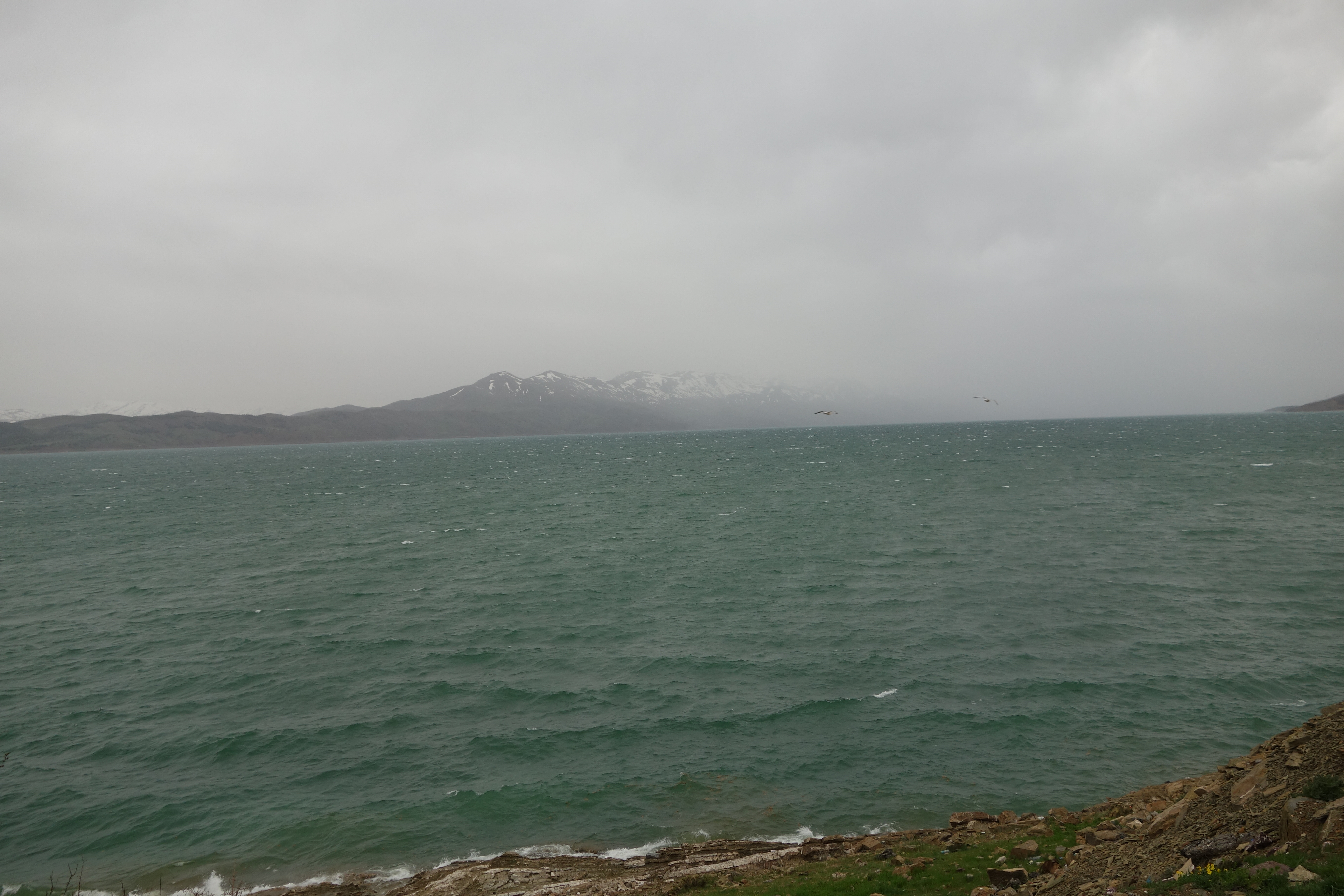 Lake Hazar (Elazig, Turkey)